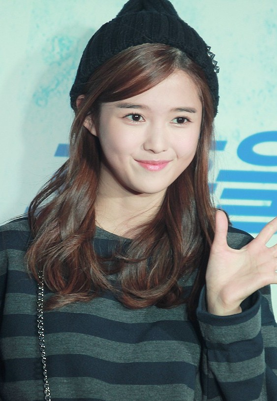 Nam Bora on 25 October 2013